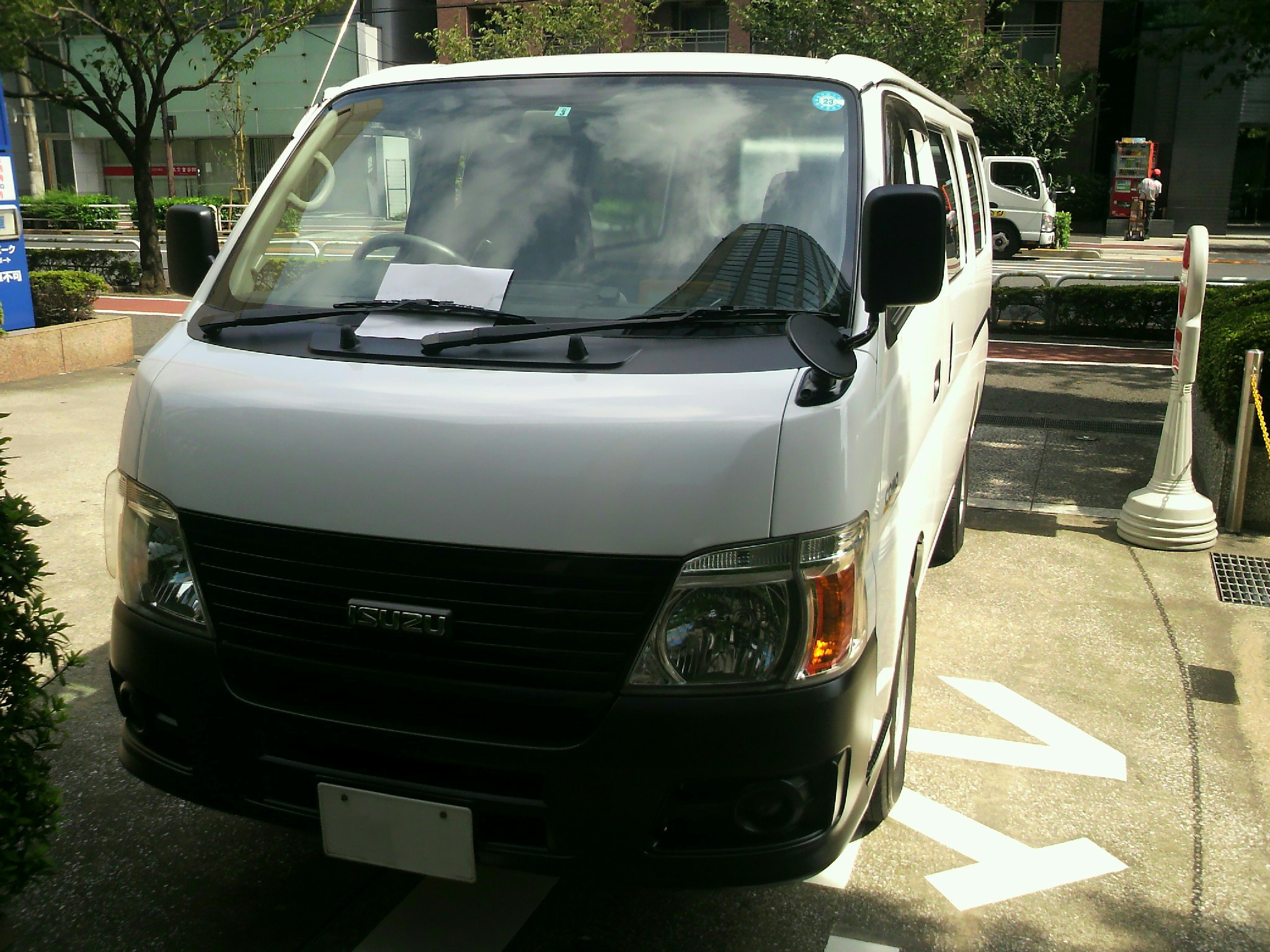 ISUZU, COMO